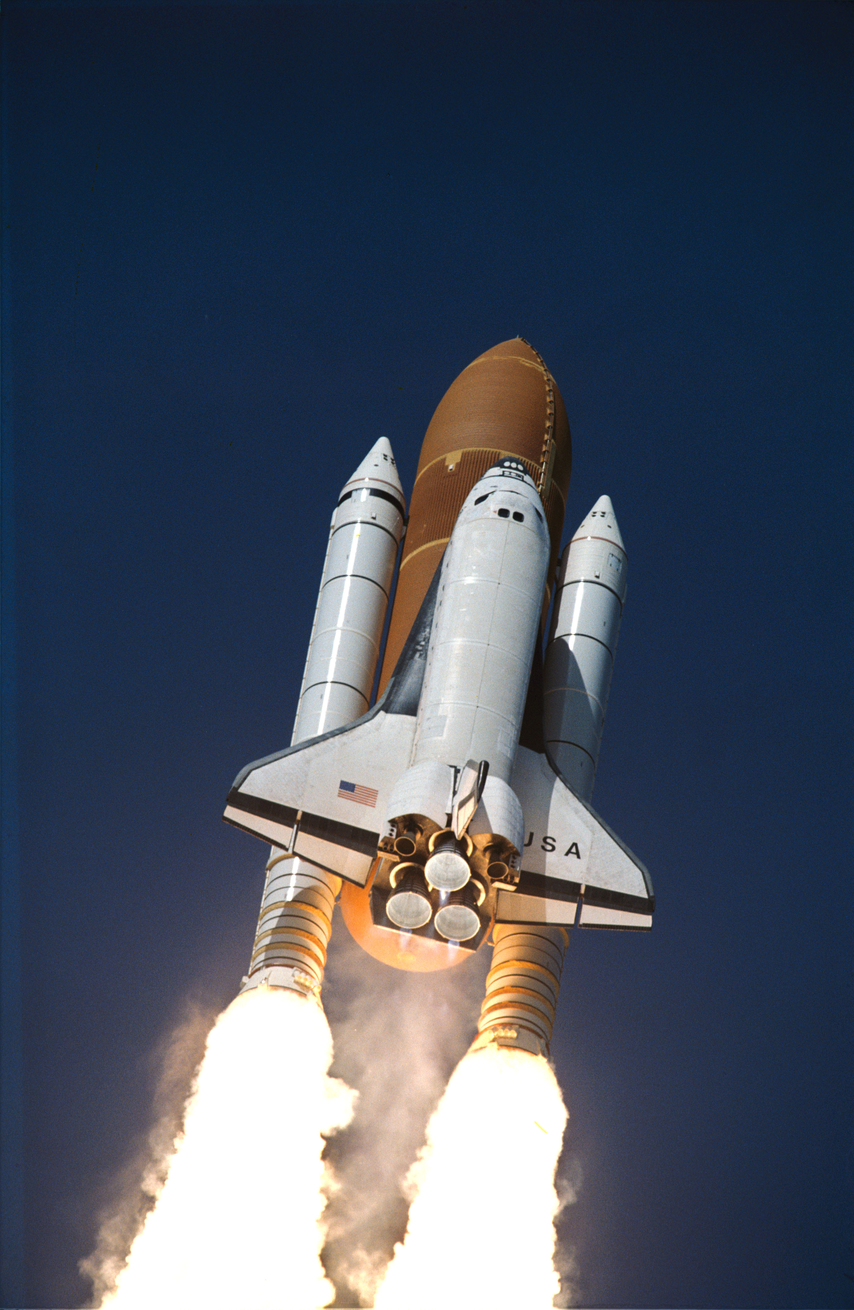 Liftoff of STS-62 Space Shuttle Columbia A low-angle view captures early stages of the sixteenth launch of Space Shuttle Columbia. Launch occurred at 8:53 a.m. (EST), March 4, 1994. Onboard were astronauts John H. Casper, Andrew M. Allen, Marsha S. Ivins, Charles D. (Sam) Gemar and Pierre J. Thuot.